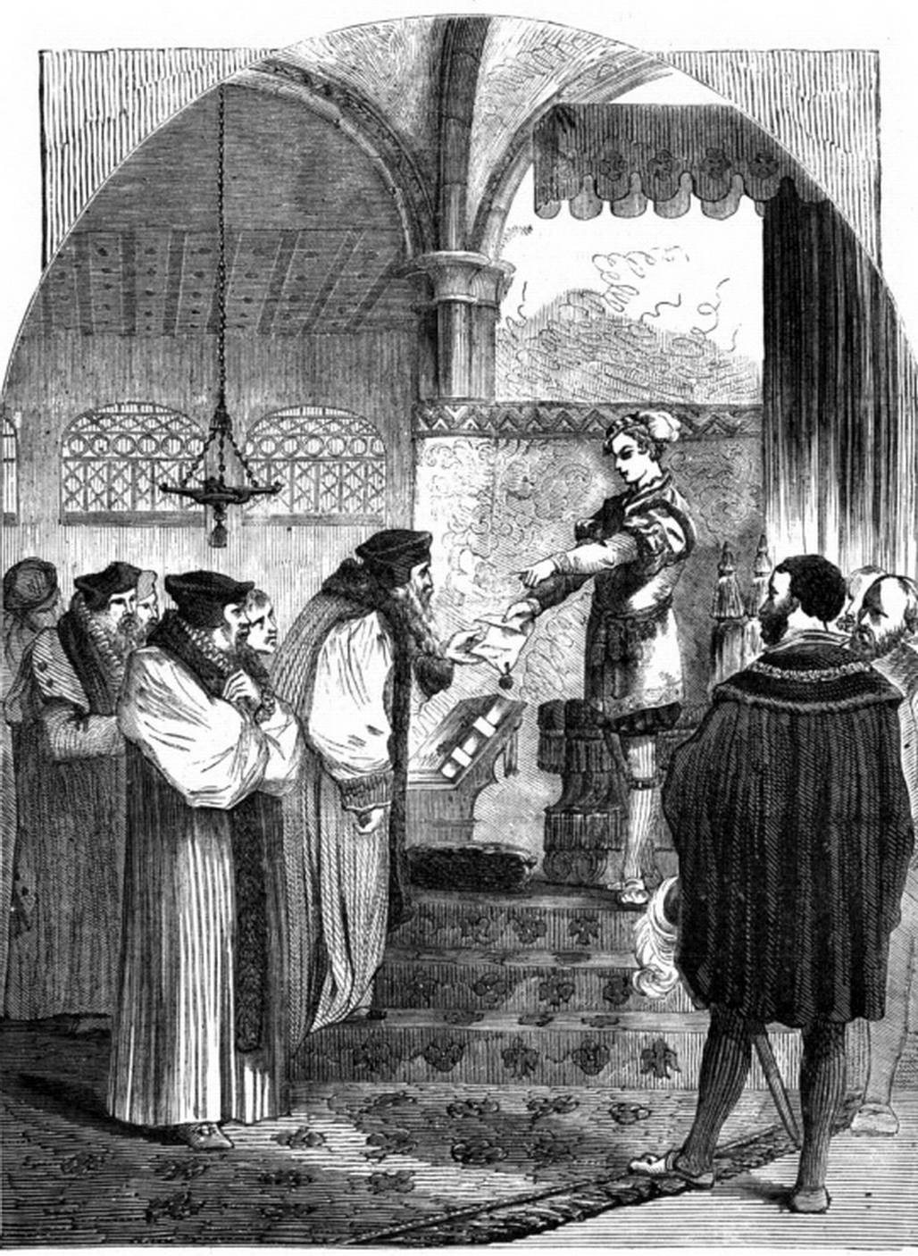 The title is the same as the image caption above & in "Cassell's Illustrated History of England, Volume 2". The number shown is the page number. Follow the image link to the full book vol.2.